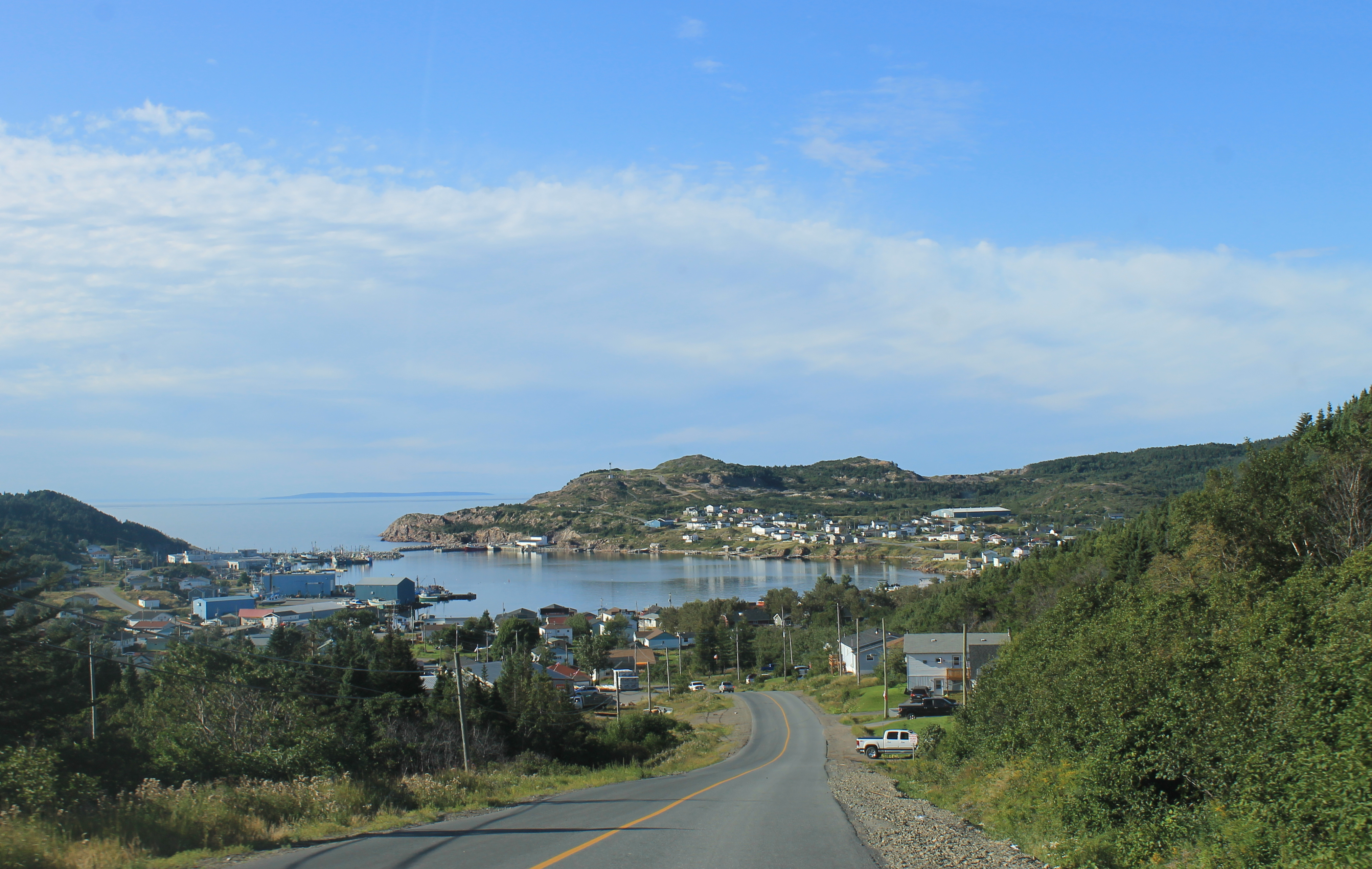 The view on your way into La Scie, Newfoundland and Labrador, Canada.